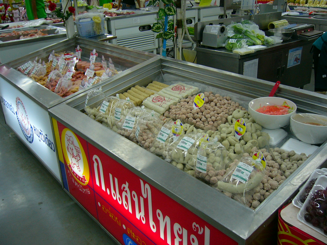 Meat products for sale, seen in Thailand (Tesco Lotus Superstore Sakon Nakhon).